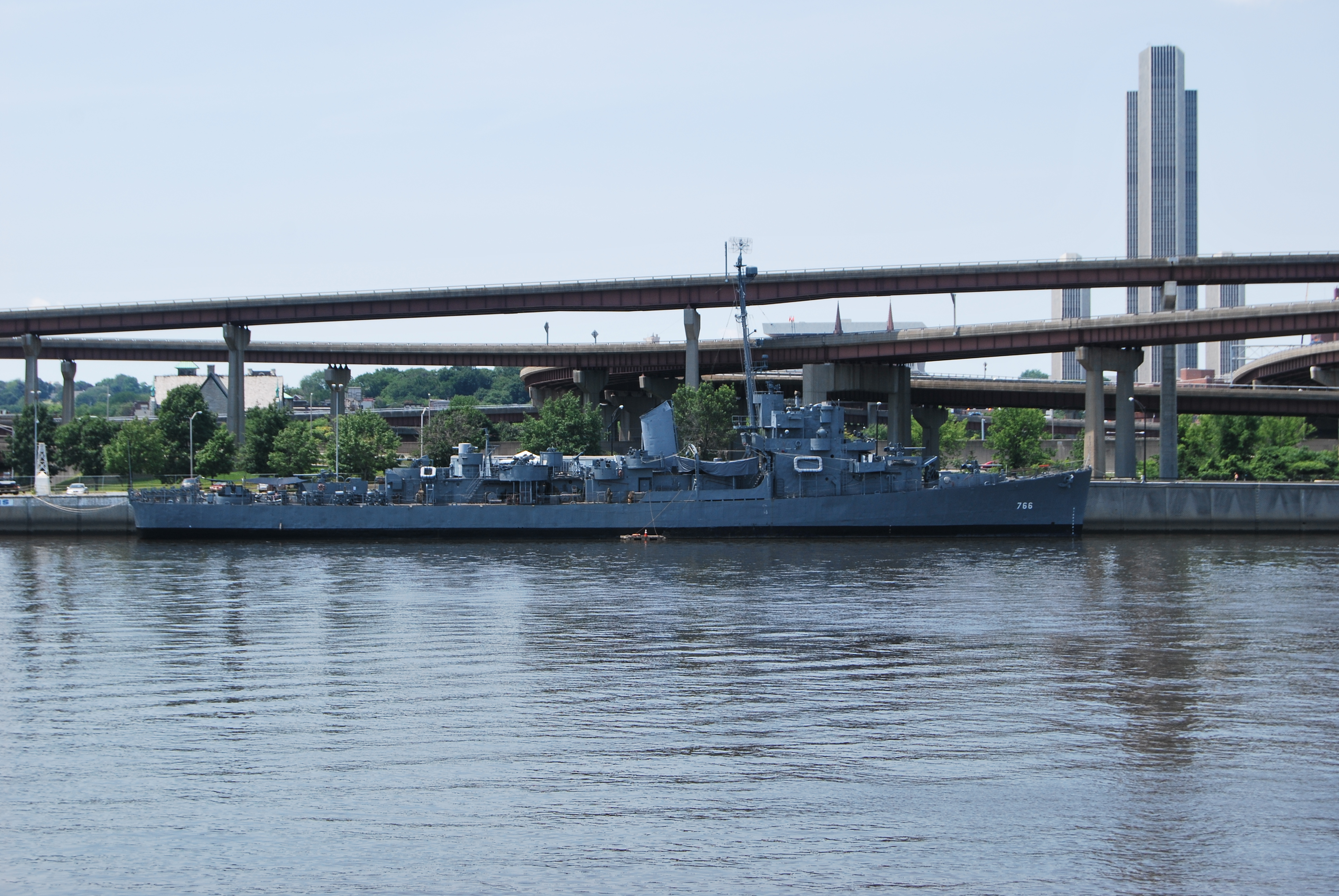 USS Slater (DE-766), a museum ship harbored in Albany, New York